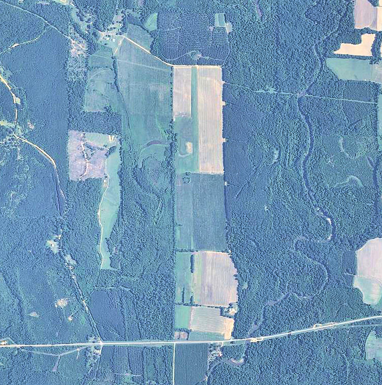 USGS digital orthophoto of River Airport in Mississippi.